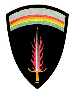 Shoulder patch insignia for members or attached personnel to the Supreme Headquarters Allied Expeditionary Force during WWII.